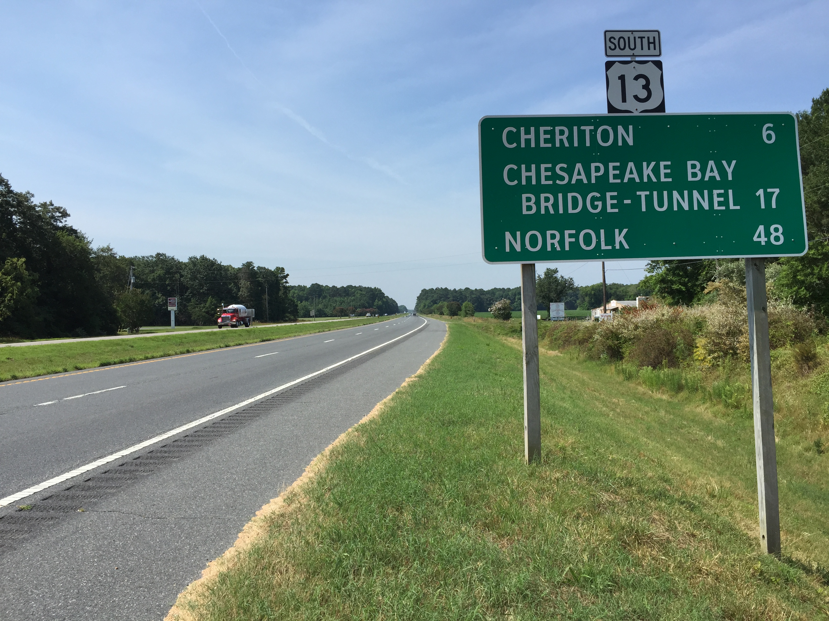 View south along U.S. Route 13 (Lankford Highway) at U.S. Route 13 Business (Courthouse Road) in James Crossroads, Northampton County, Virginia